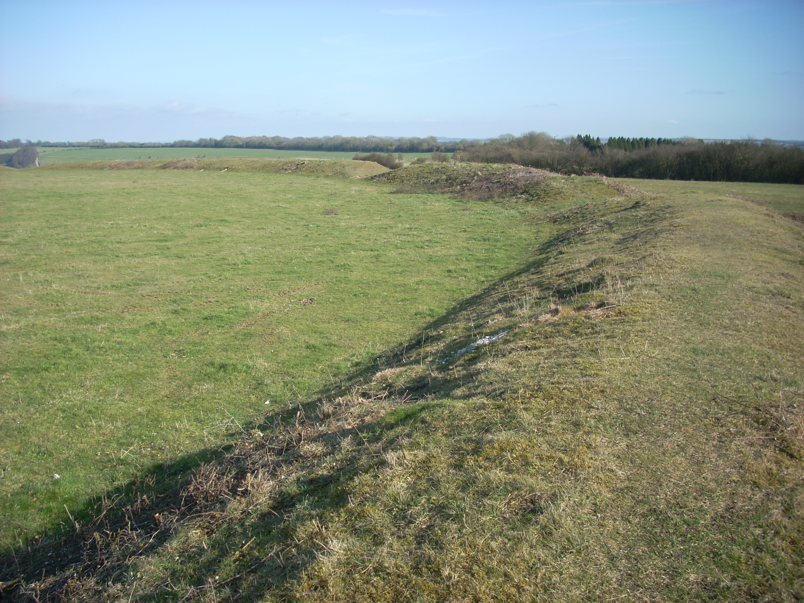 Chiselbury Iron Age hillfort on Fovant Down, Wiltshire.